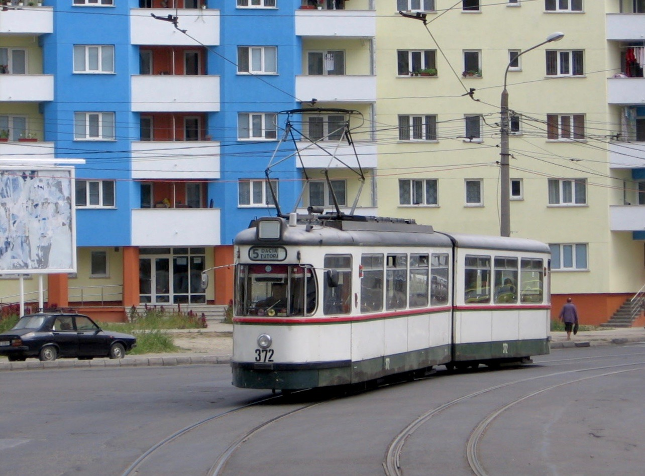 Iasi tram 372, ex-Augsburg 532, on route 5 in September 2005 – viewed through the back window of another tram. Car 372 is a type GT5 five-axle tram built in 1964 by MAN. It was acquired by the Iasi tram system in 2001, and was numbered 369 in Iasi until 2003, when it was renumbered 372.